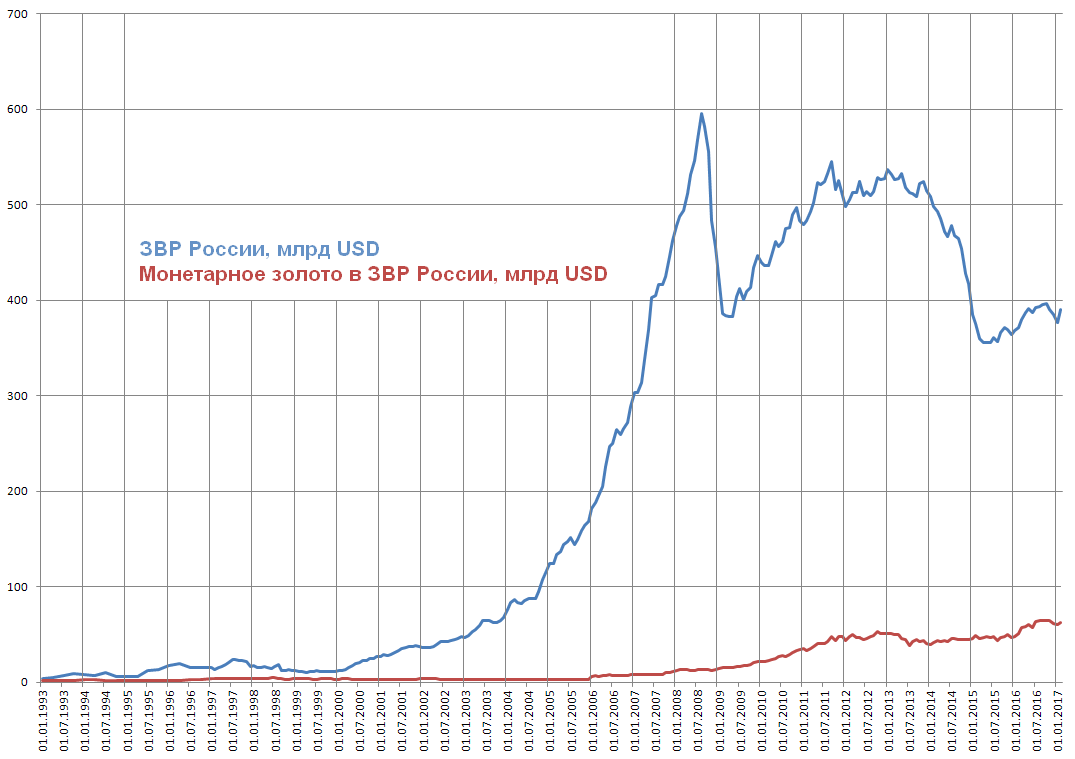 Foreign-exchange reserves of Russia with gold